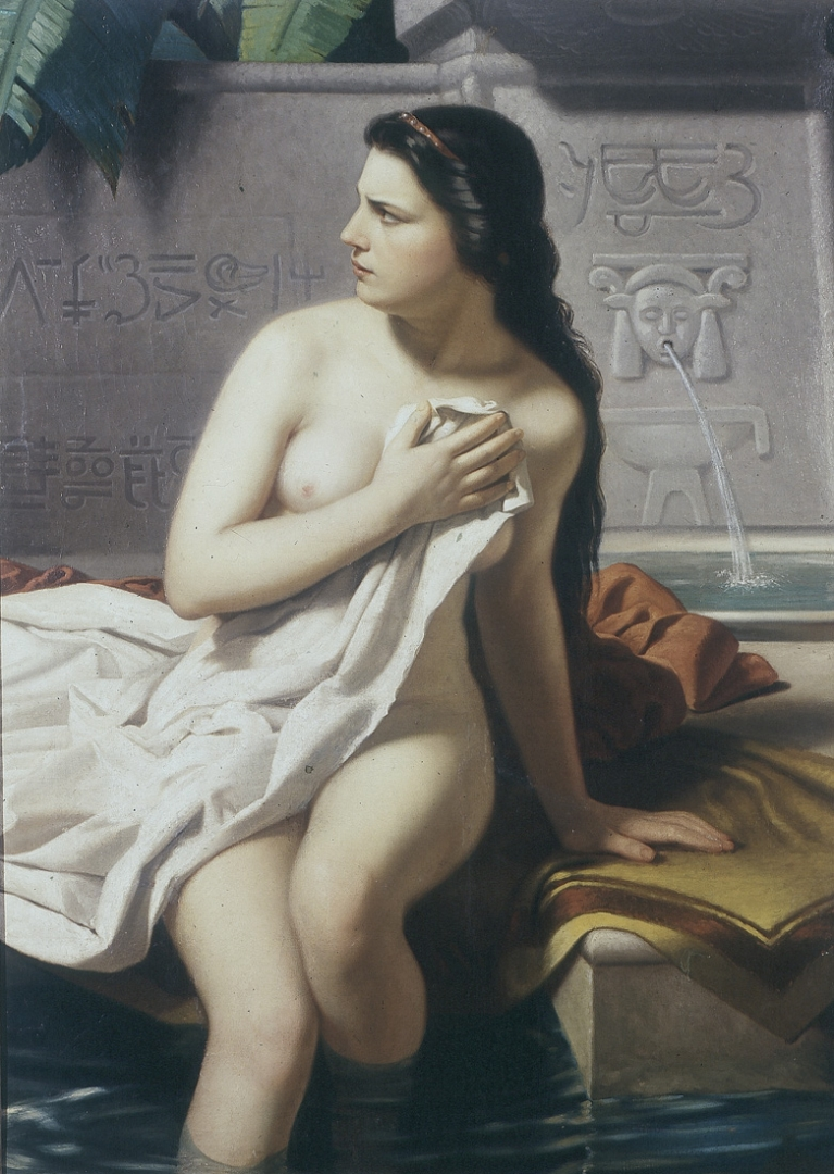 La Casta Susana, depicts a scene from the Book of Daniel.